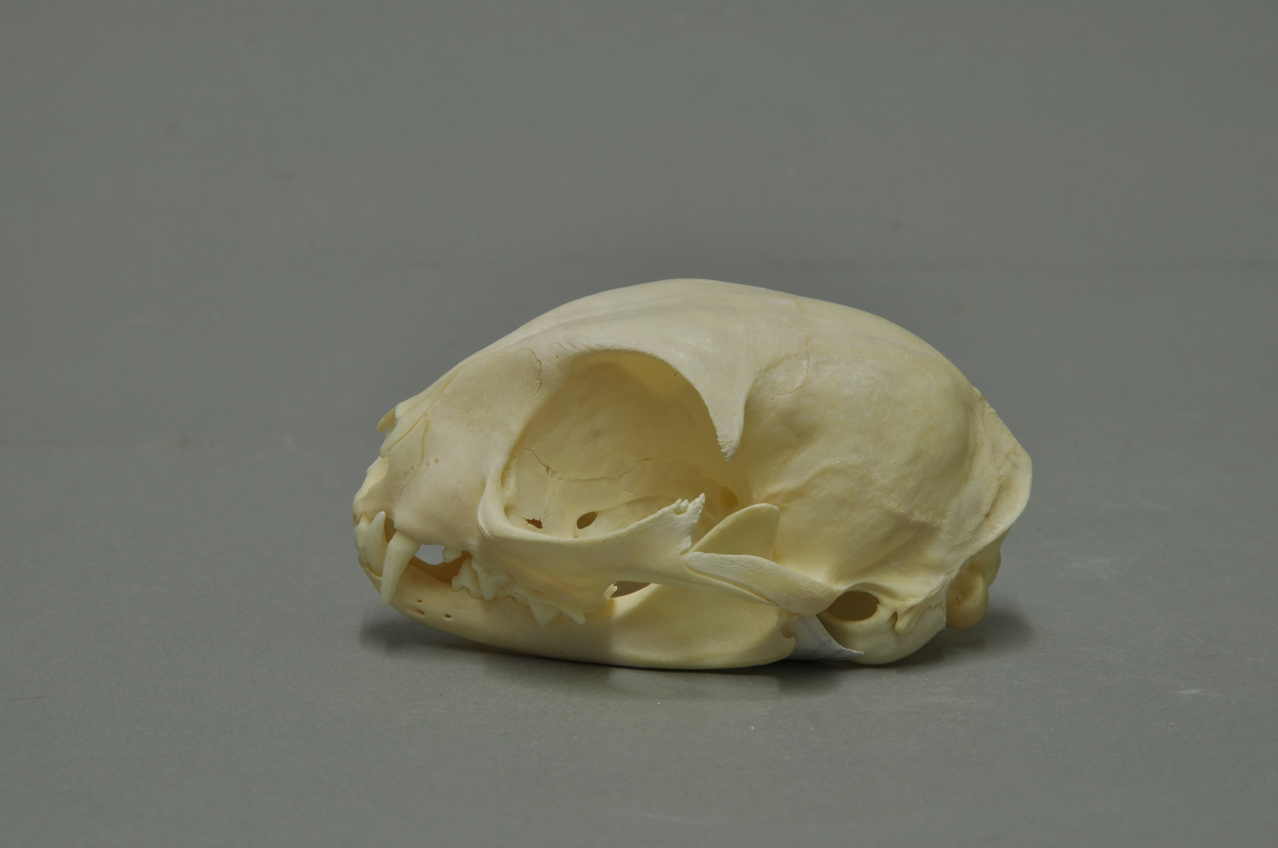 African wildcat Felis silvestris lybica, skull, Coll. Museum Wiesbaden